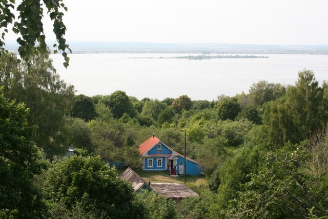 View to the Sura (left) and to the Volga (right) Rivers in Vasilsursk